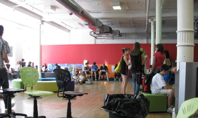 Level two of the old Southern Star building on Cashel Street. Students of the Unlimited Paenga Tawhiti school in 2011 during orientation week.